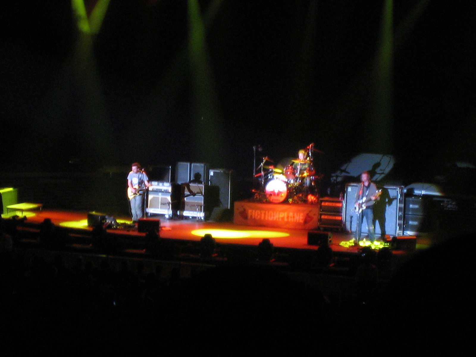 Fiction Plane